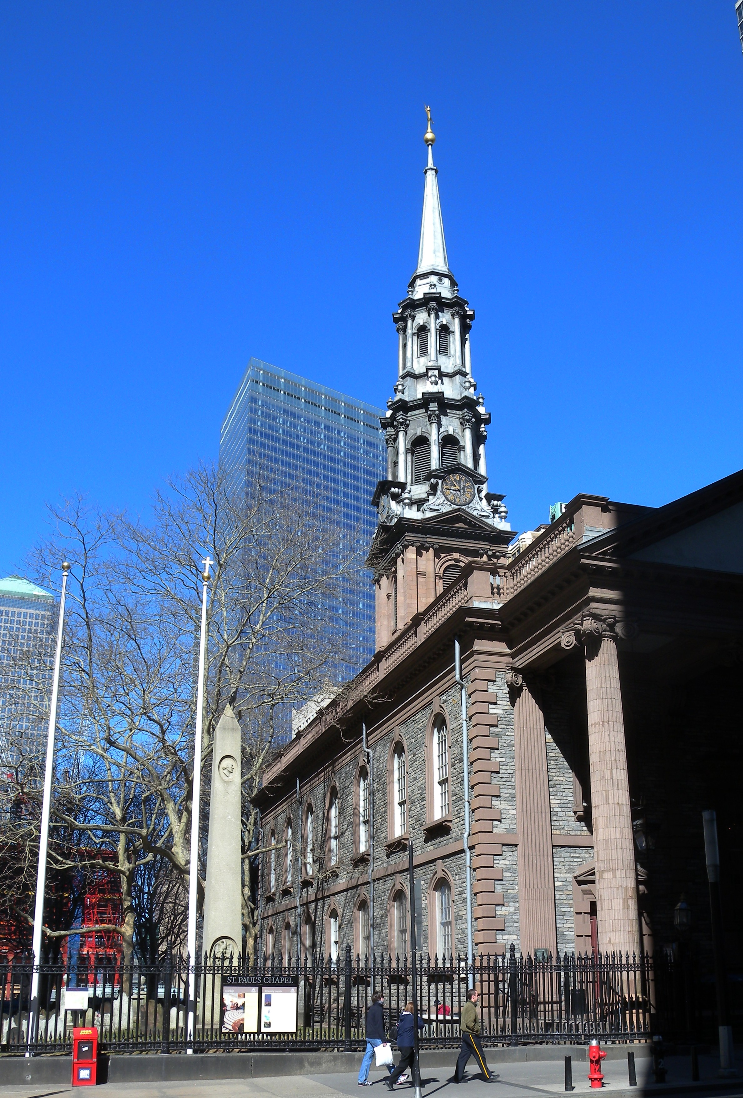 Looking northwest across Broadway from Fulton at St Paul's steeple when front is in shadow of a sunny midday.